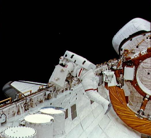 Story Musgrave during the STS-6 EVA.